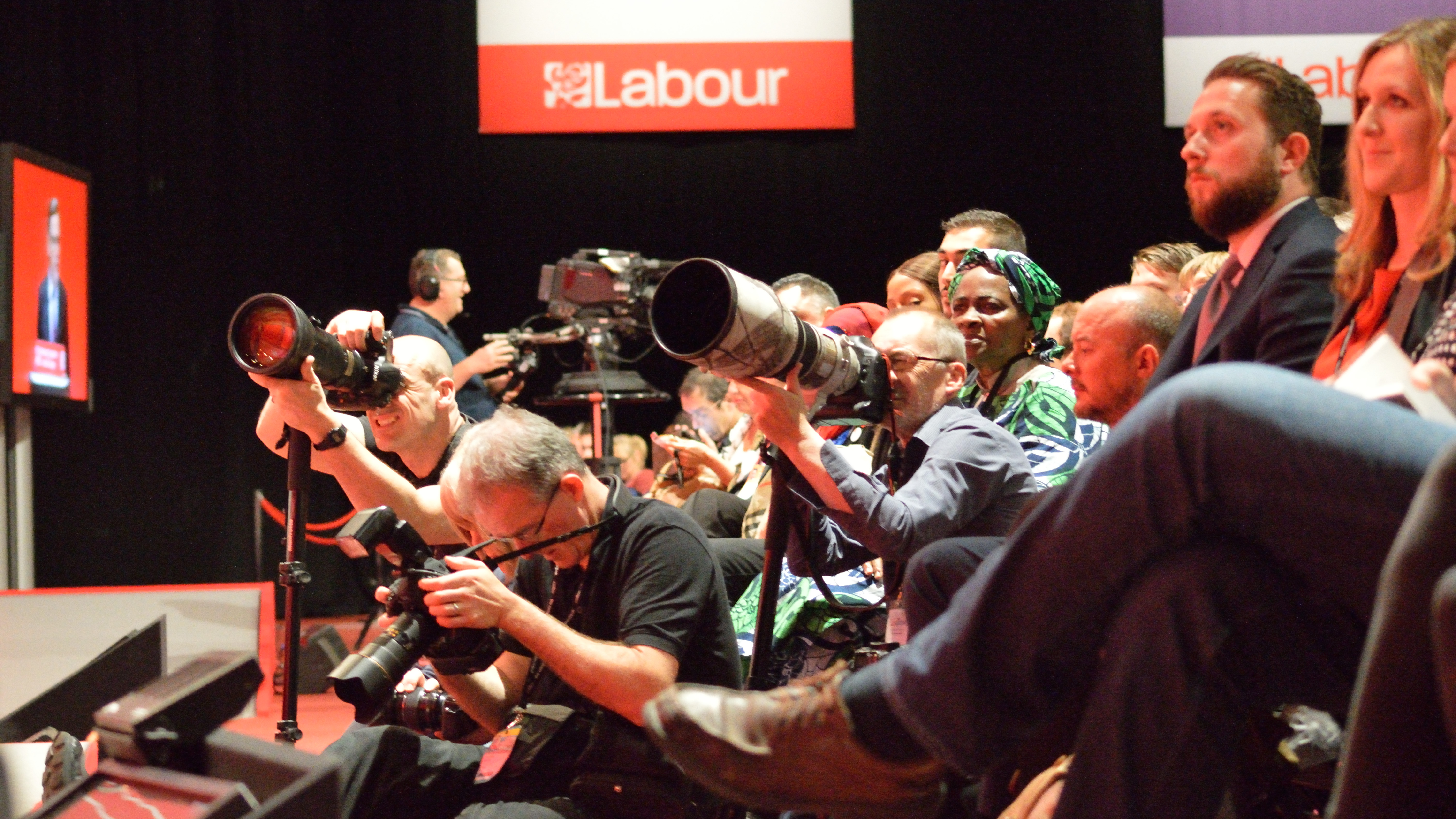 Press photographers at the 2016 Labour Party Conference.